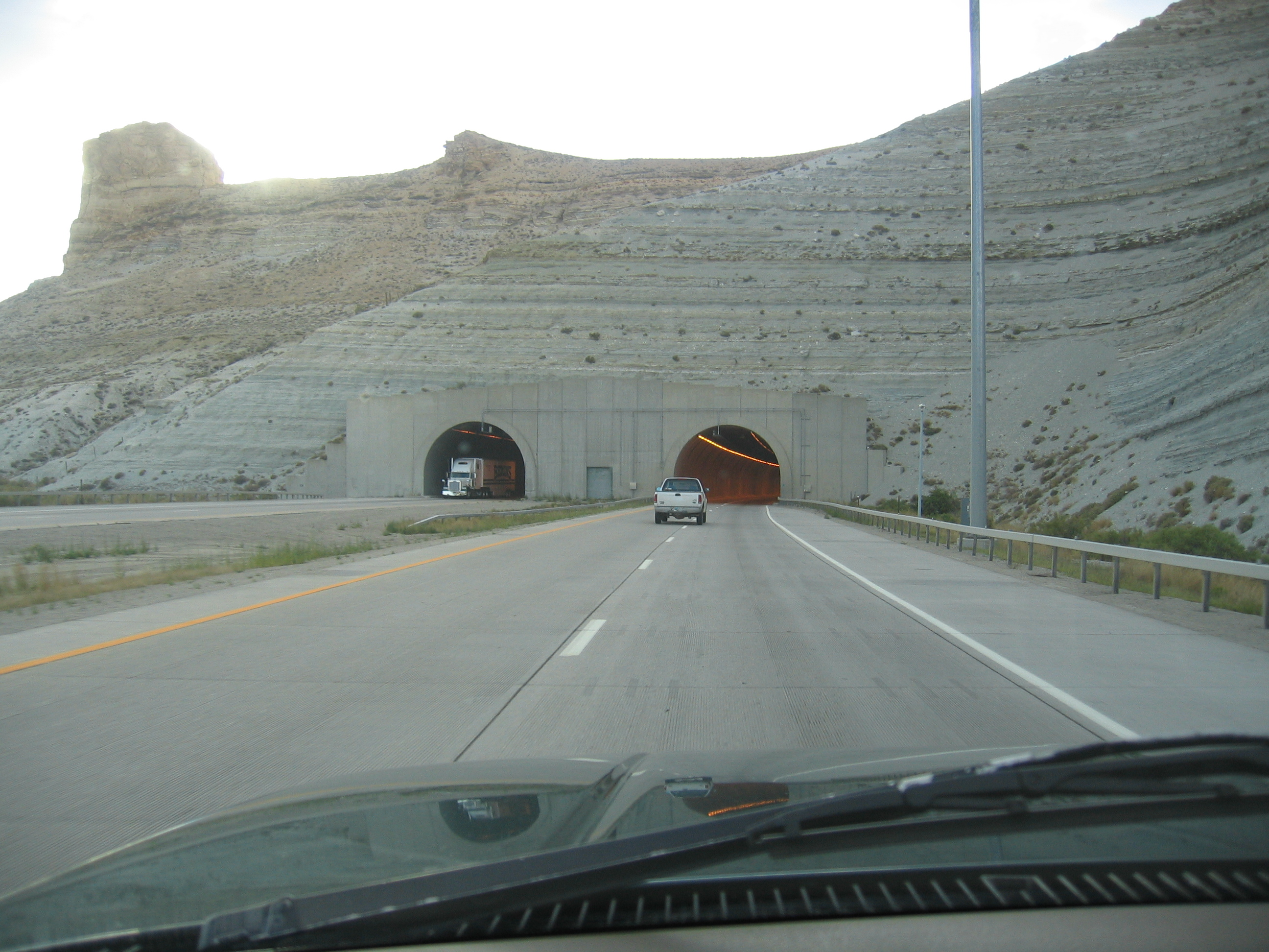 View from westbound direction of east portal of both tunnels serving U.S. Interstate 80 just north of Green River, Wyo. Location at 41.535085,-109.466851.